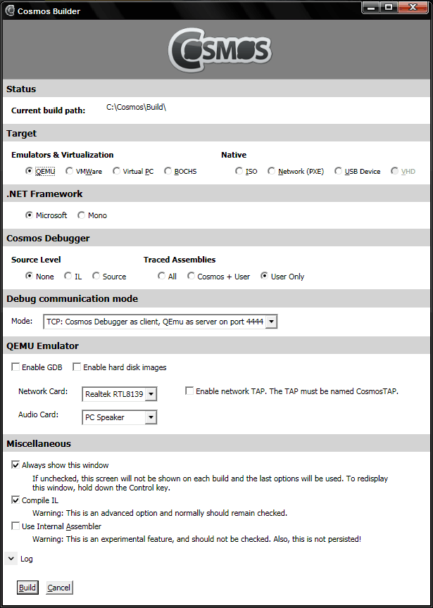 Screenshot of the Cosmos builder screen.